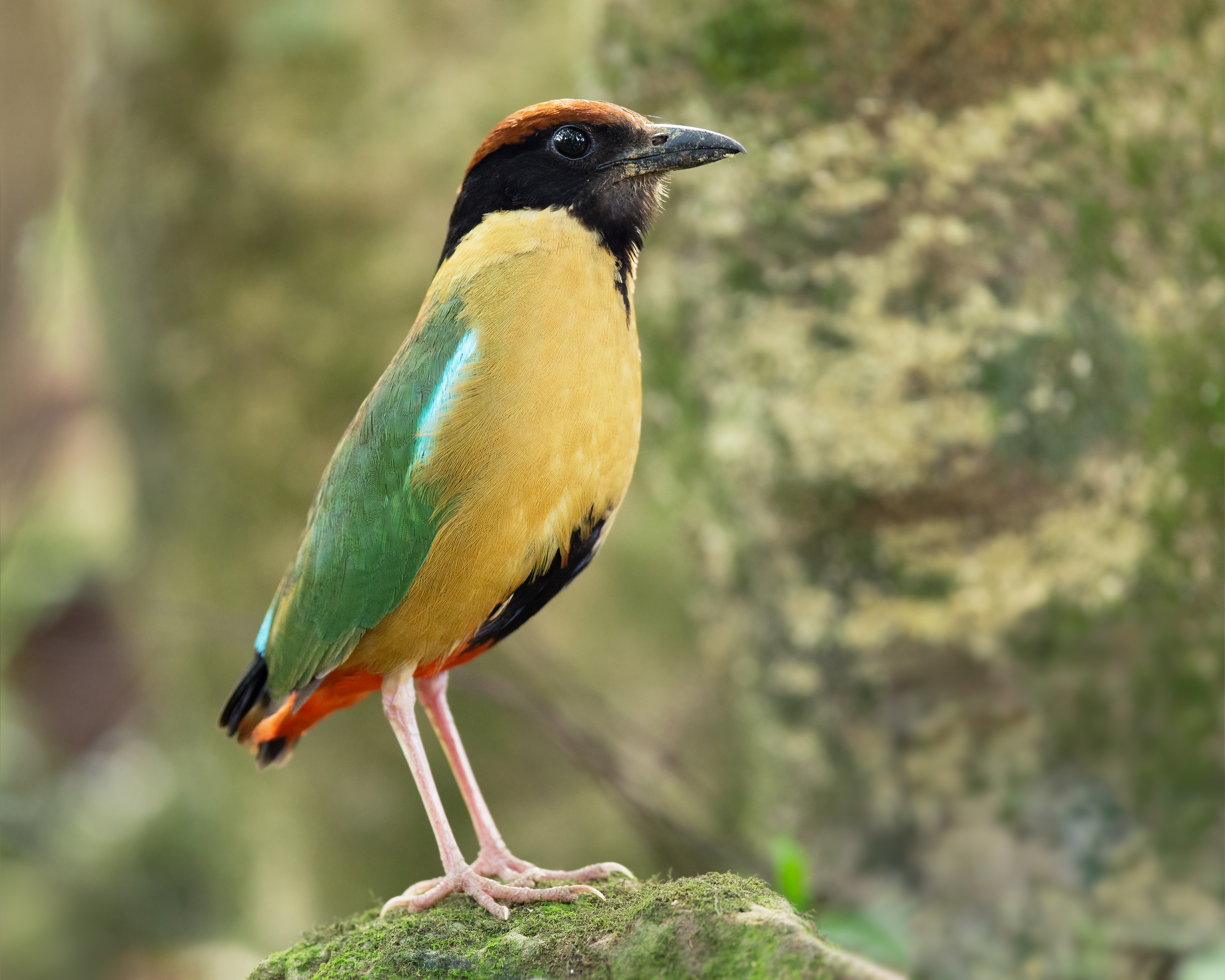 Noisy Pitta (Pitta versicolor), Kembla Heights, New South Wales, Australia